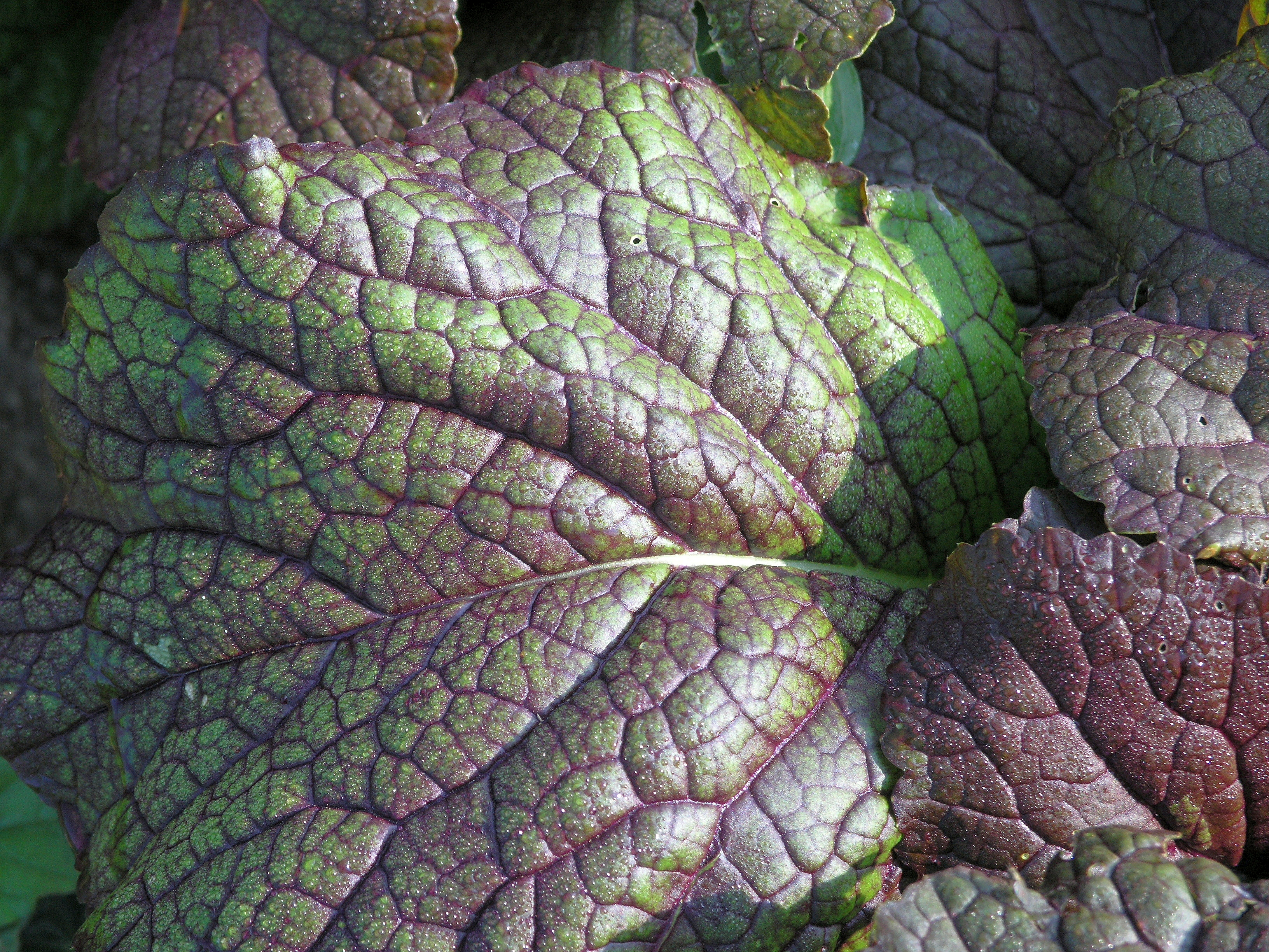 Blatt Roter Senf, Leaf of Red Mustard, Red Giant